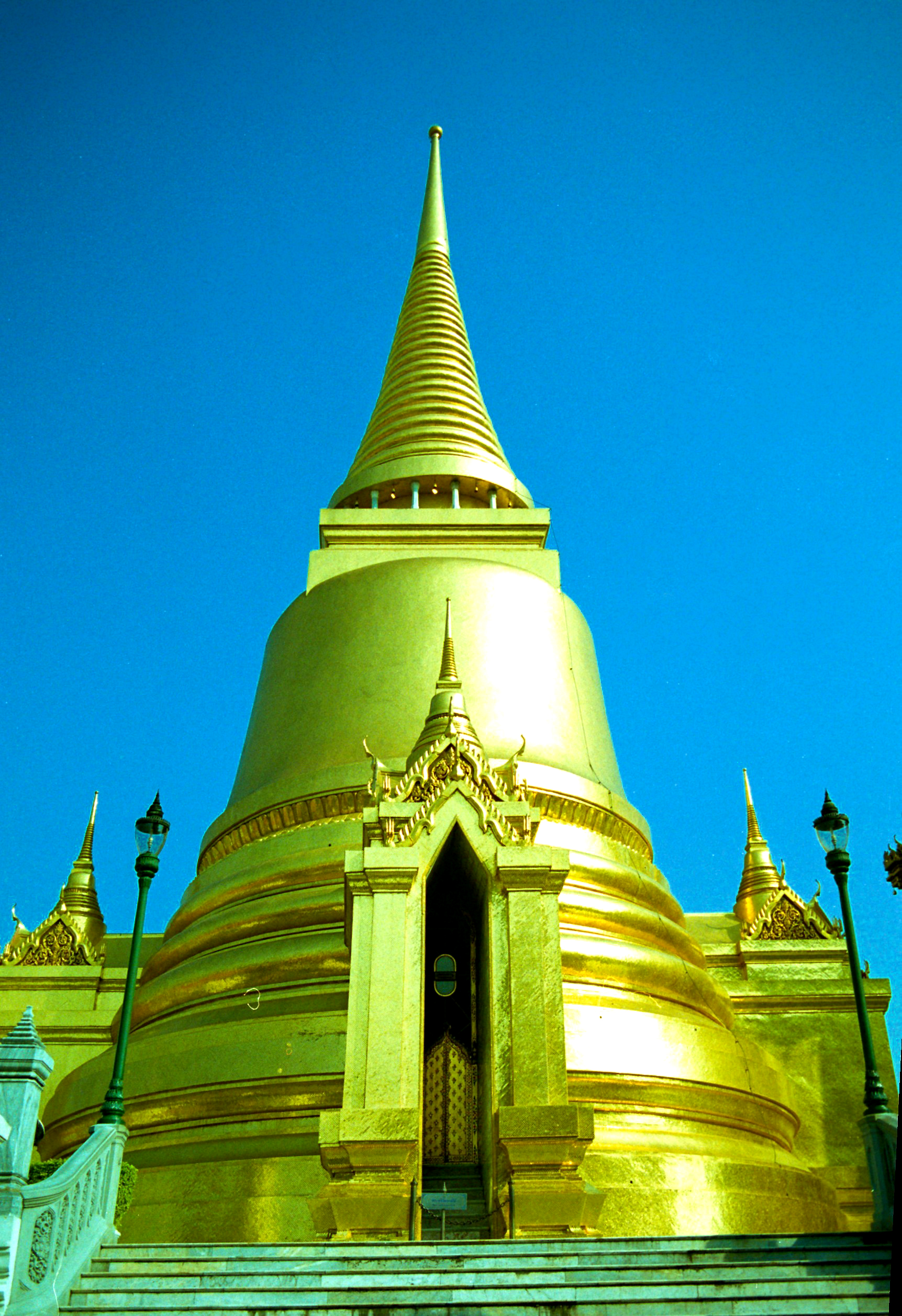 Phra Sri Ratana Chedi (stupa) at Wat Phra Kaew.